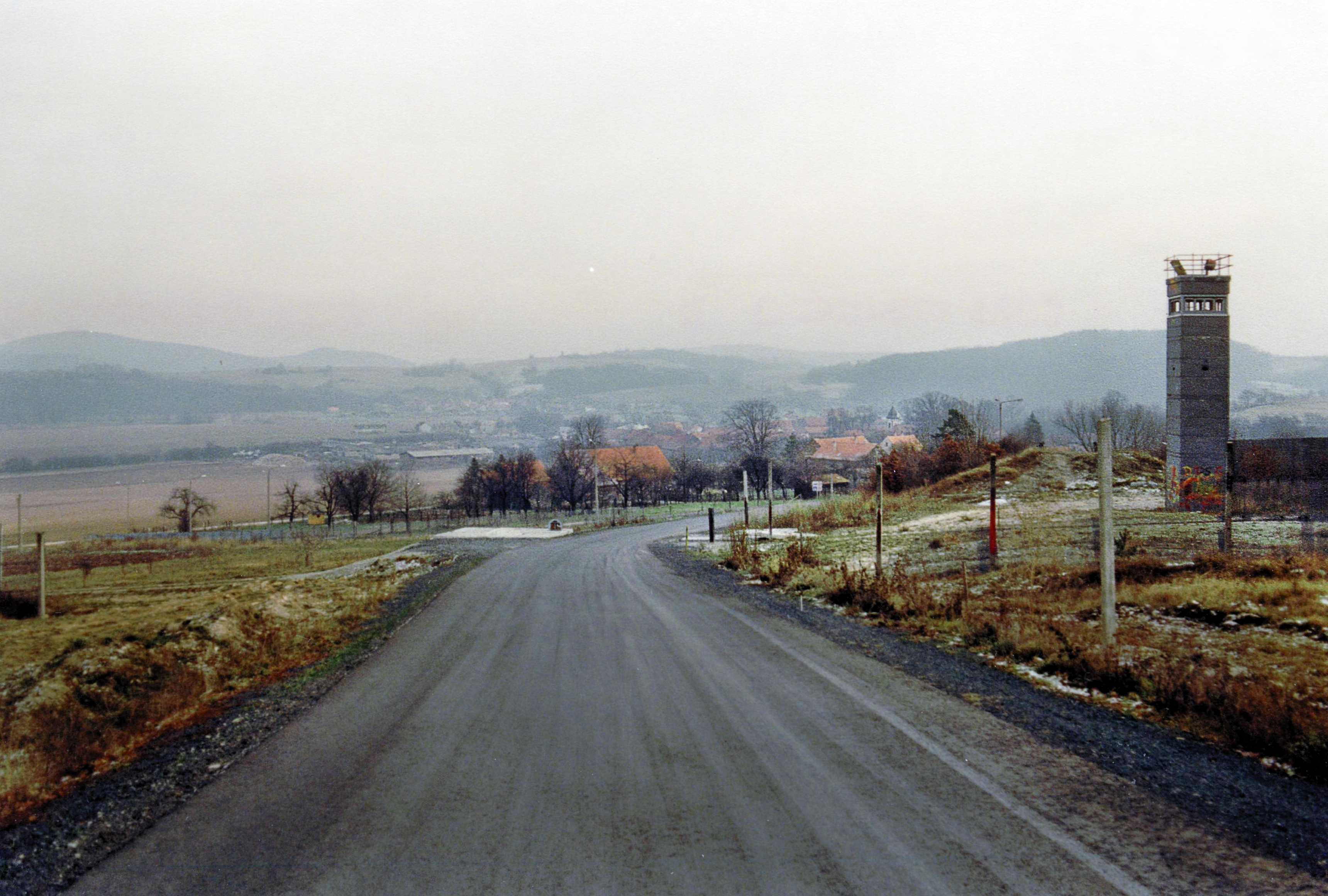 Inner German border at Pferdsdorf-Spichra in the Kreis Eisenach in Thuringia, Germany. Road into the village, with houses of Pferdsdorf-Spichra visible in the disatnce (orange tile roofs and church tower). On the right is a BT-9 tower with graffiti. Various fence posts are visible, but no clear fence.